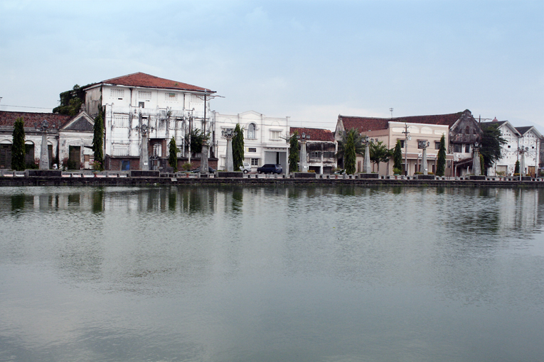 The Tawang polder, behind the old railway station of Semarang city.